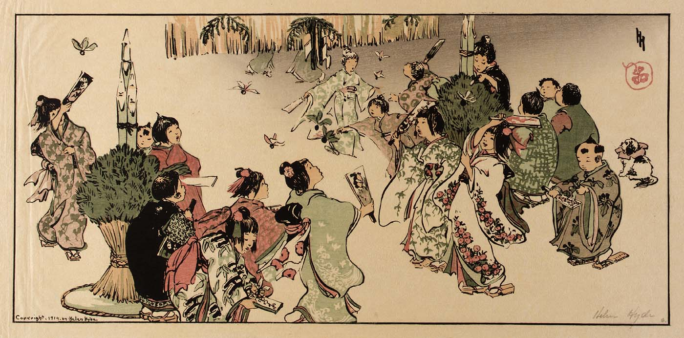 New year´s day in Tokyo - 1912 - Helen Hyde